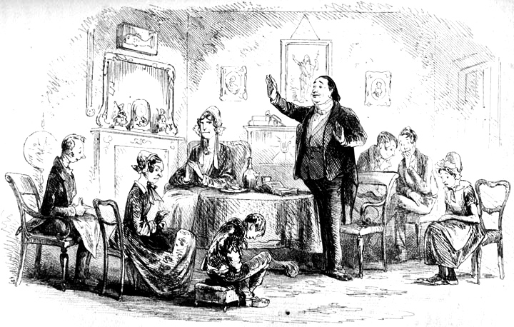 Mr. Chadband 'Improving' a Tough Subject by "Phiz" (Hablot Knight Browne) for Bleak House, p. 254 (ch. 24, "An Appeal case"). 6 x 3 3/8 inches.